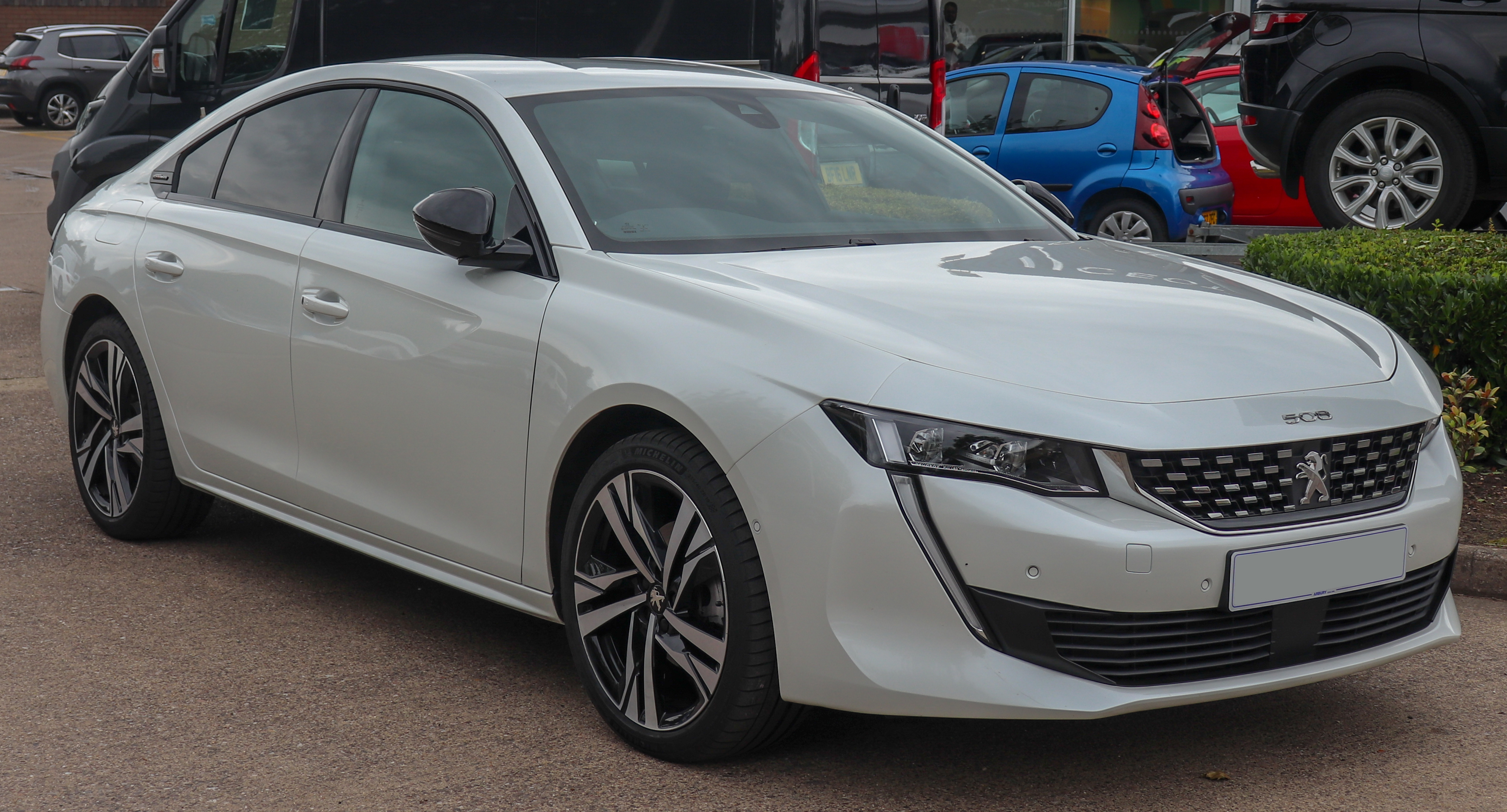 2019 Peugeot 508 GT-Line BlueHDi 1.5 (130 PS) Front Taken in Leamington Spa